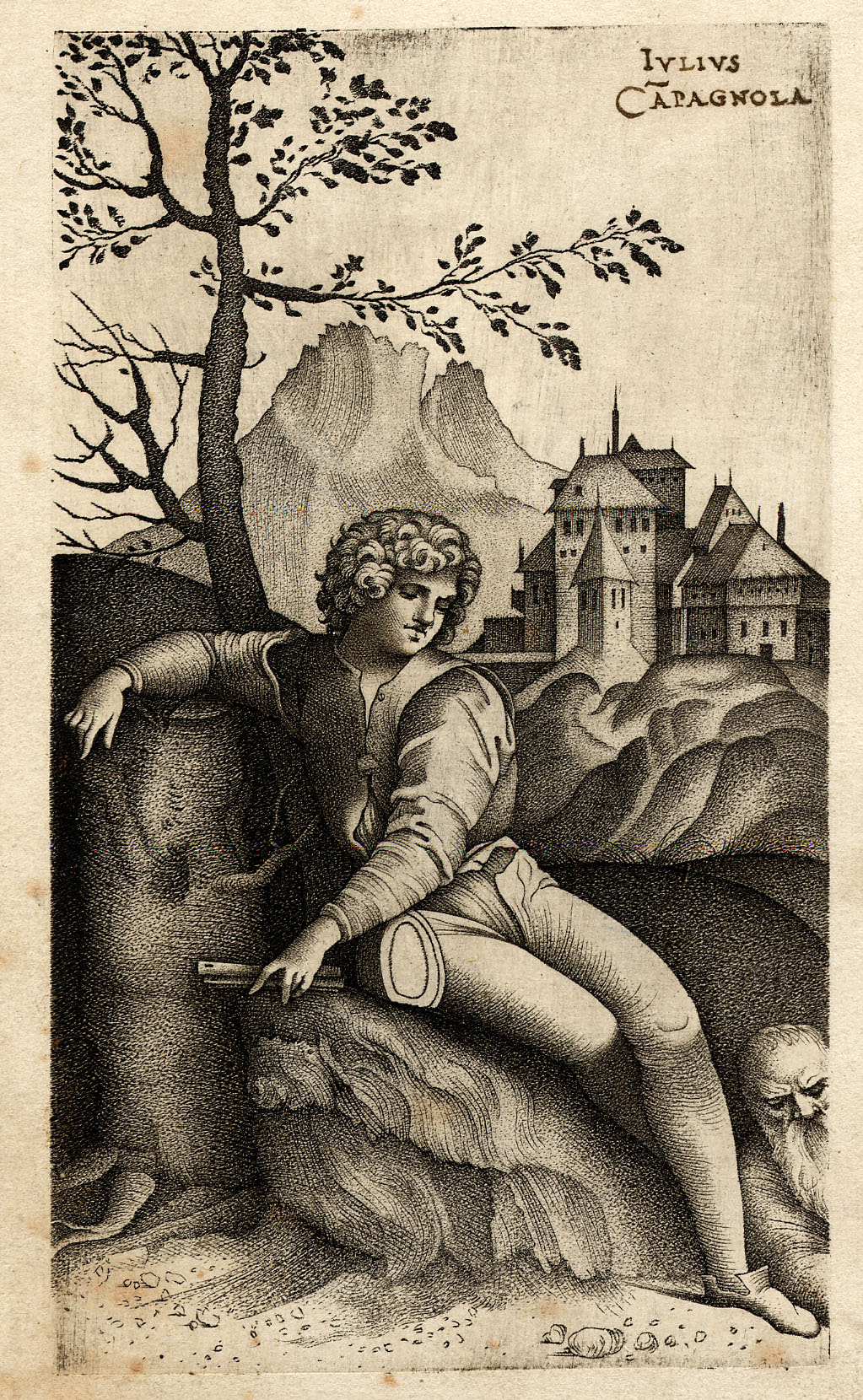 Giulio Campagnola c. 1482 – c. 1515, engraving in the British Museum